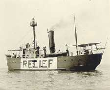 The Huron Lightship (LV-103) early in its career, prior to being assigned to the Huron station. It is today docked at Port Huron, Michigan, United States, as a museum ship. It is listed on the US National Register of Historic Places (NRHP) and is a designated National Historic Landmark. NRHP reference number 76001974